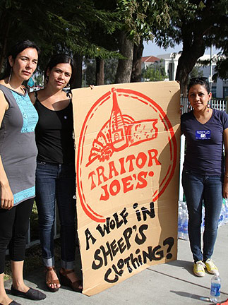 protest at Trader Joe's headquarters in Monrovia, California